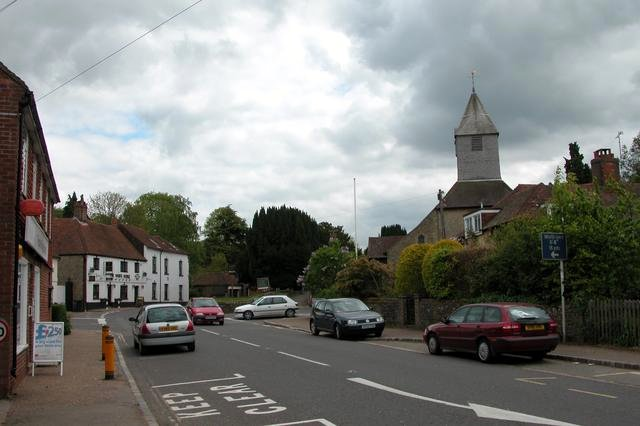 Rogate Village centre. The church of St Bartholomew on the right, the white building straight ahead is the White Horse Inn.